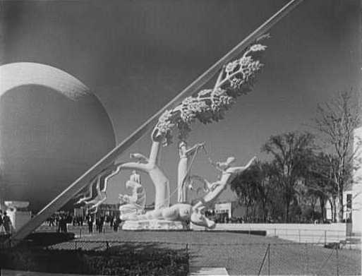 New York World's Fair views. Sundial II